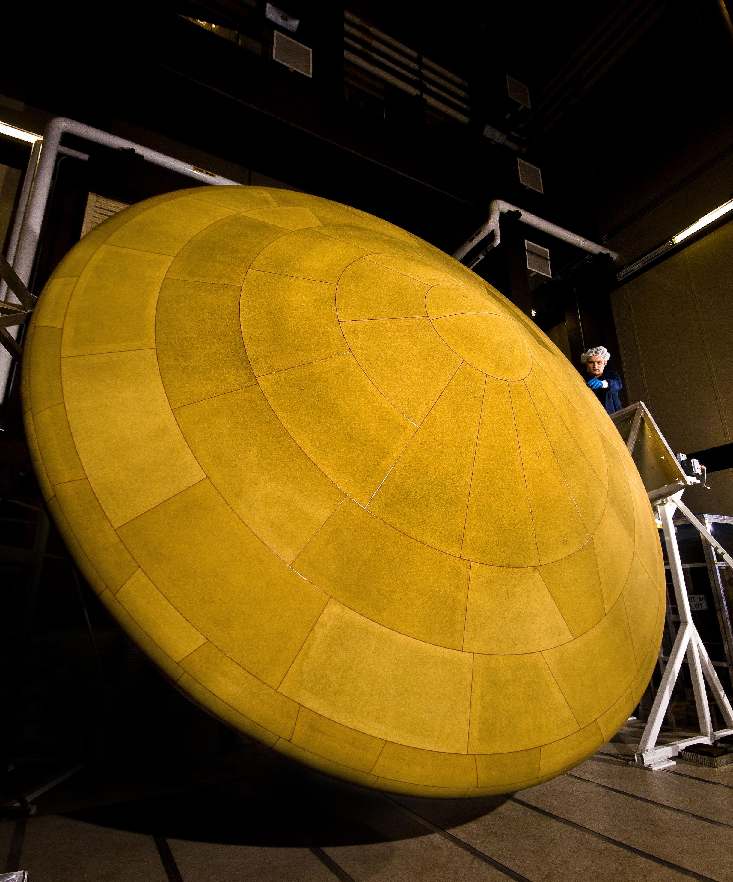 Large Heat Shield for Mars Science Laboratory The finished heat shield for NASA's Mars Science Laboratory, with a diameter of 4.5 meters (14 feet, 9 inches), is the largest ever built for descending through the atmosphere of any planet. This image shows the heat shield and a spacecraft worker at Lockheed Martin Space Systems, Denver, which built and tested the heat shield. The heat shield and the spacecraft's backshell together form an encapsulating aeroshell that will protect the mission's rover, Curiosity, from the intense heat and friction that will be generated as the flight system descends through the Martian atmosphere. The aeroshell has a steering capability produced by ejecting ballast that offsets the center of mass prior to entry into the atmosphere. This offset creates lift as it interacts with the thin Martian atmosphere and allows roll control and autonomous steering through the use of thrusters. The Mars Science Laboratory is being assembled and tested for launch in the autumn of 2011. NASA's Jet Propulsion Laboratory, a division of the California Institute of Technology, Pasadena, manages the mission.